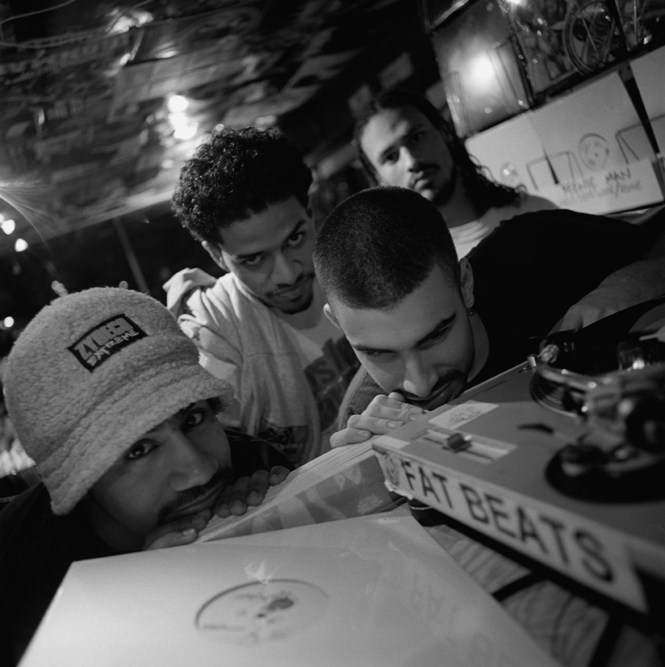 photographed in NY 1997 in Fat Beats record store